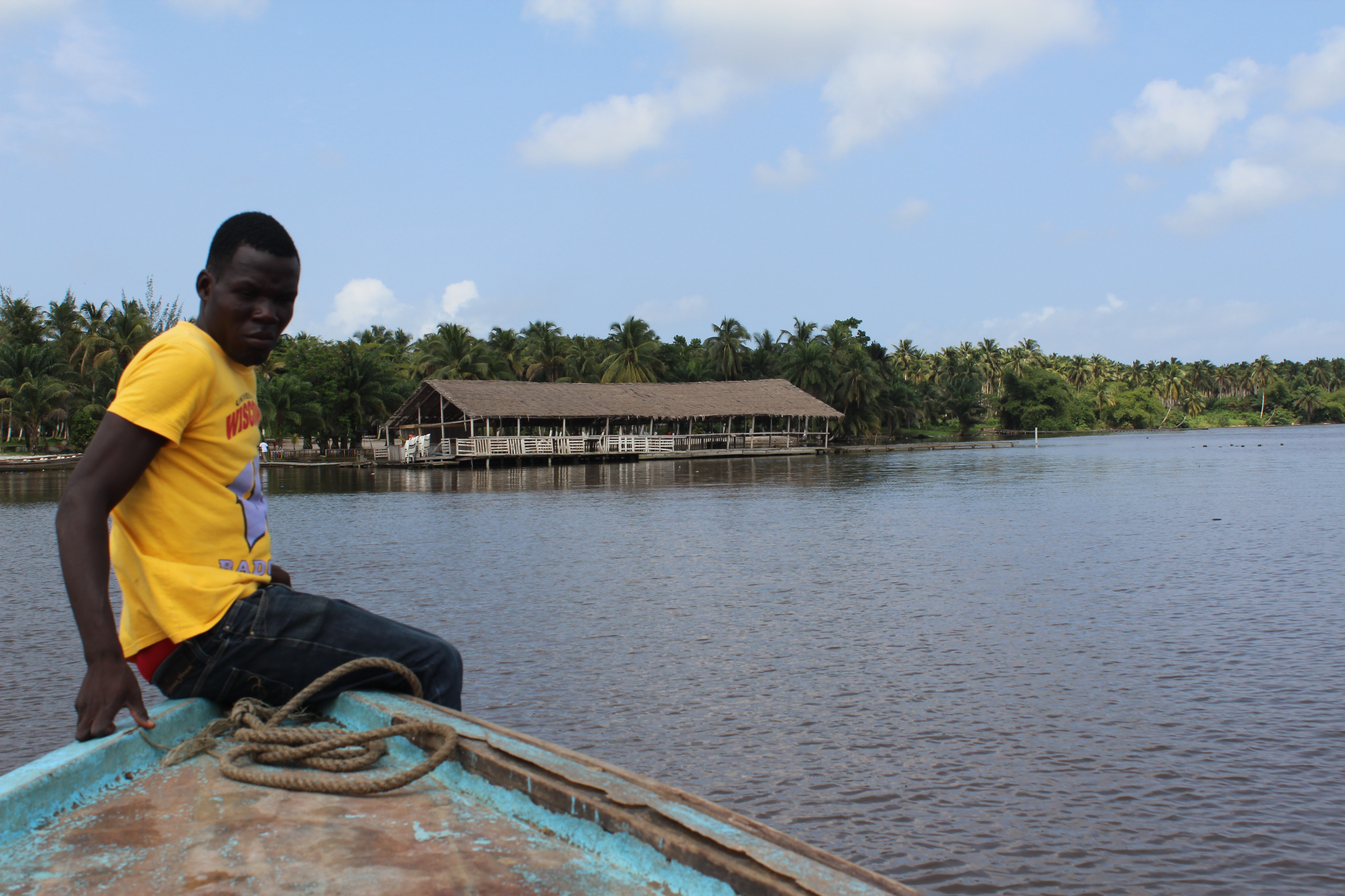 Un matelot ivoirien sur l’île Boulet à Abidjan This is an image of "African people at work" from Ivory Coast